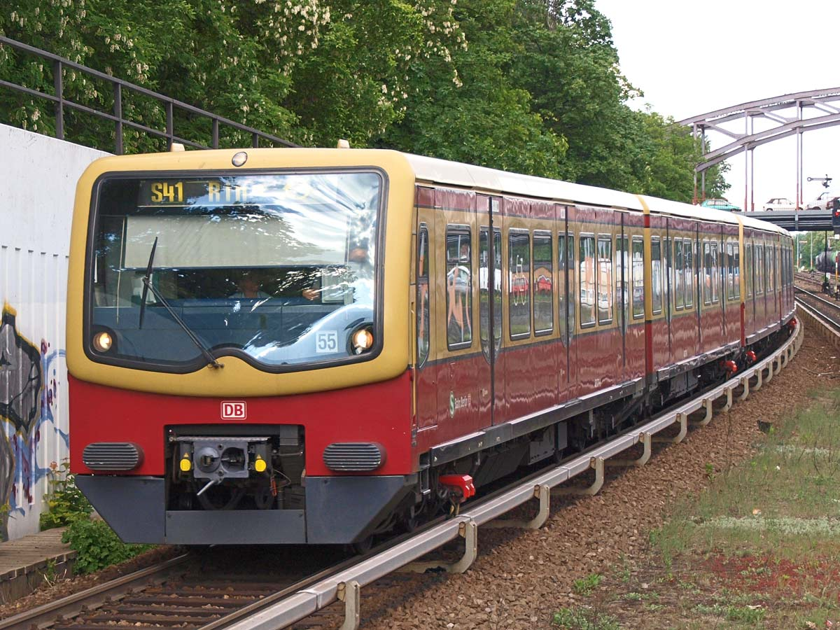 Berlin S-bahn train type 481 in Hermannstrasse station.